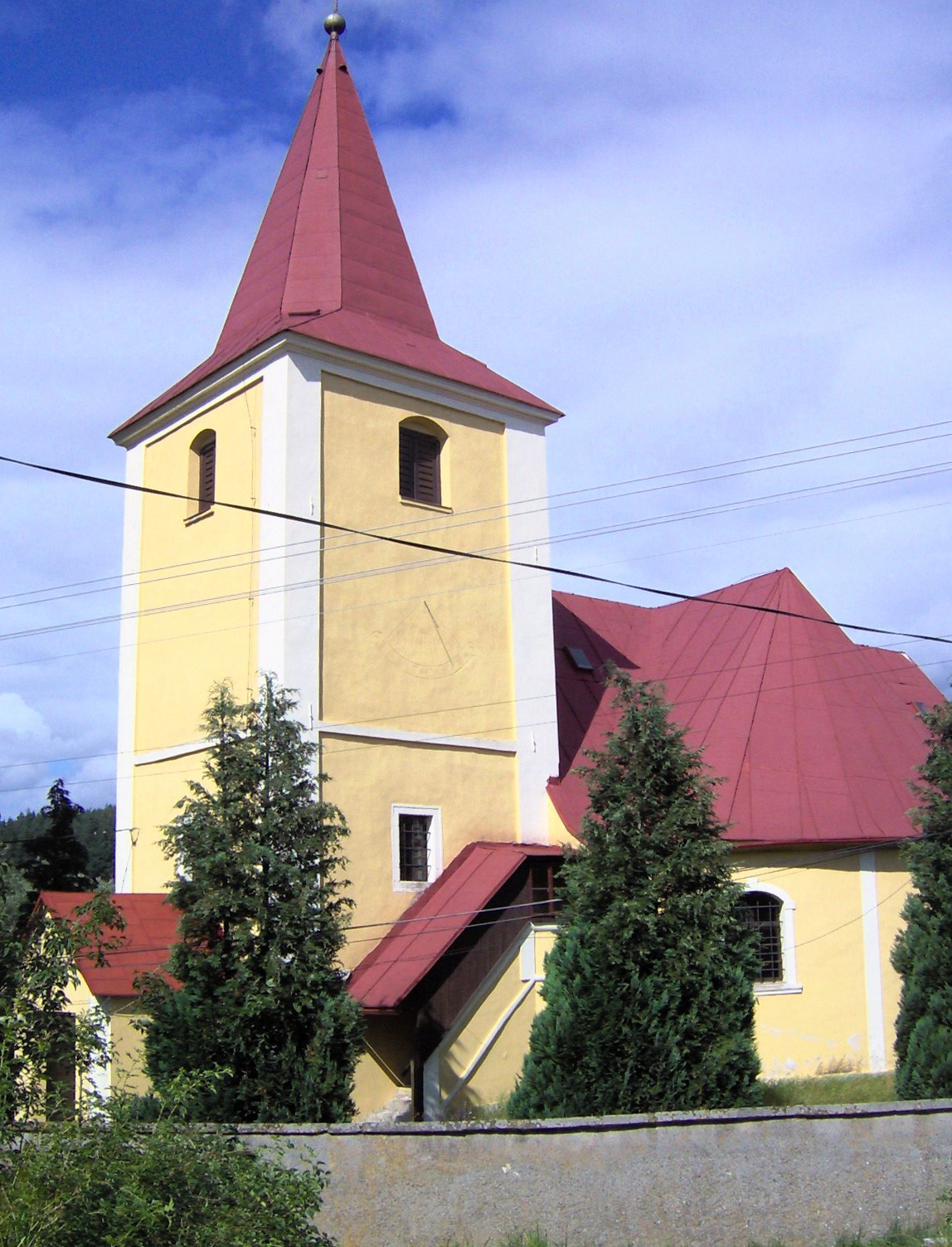 Church of Saint Wenceslaus, Kostelní Myslová, Jihlava District, Czech Republic